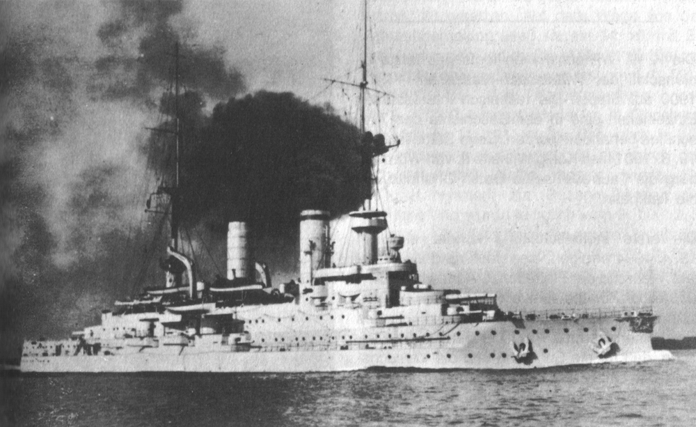 The German battleship SMS Schwaben (launched 1901).